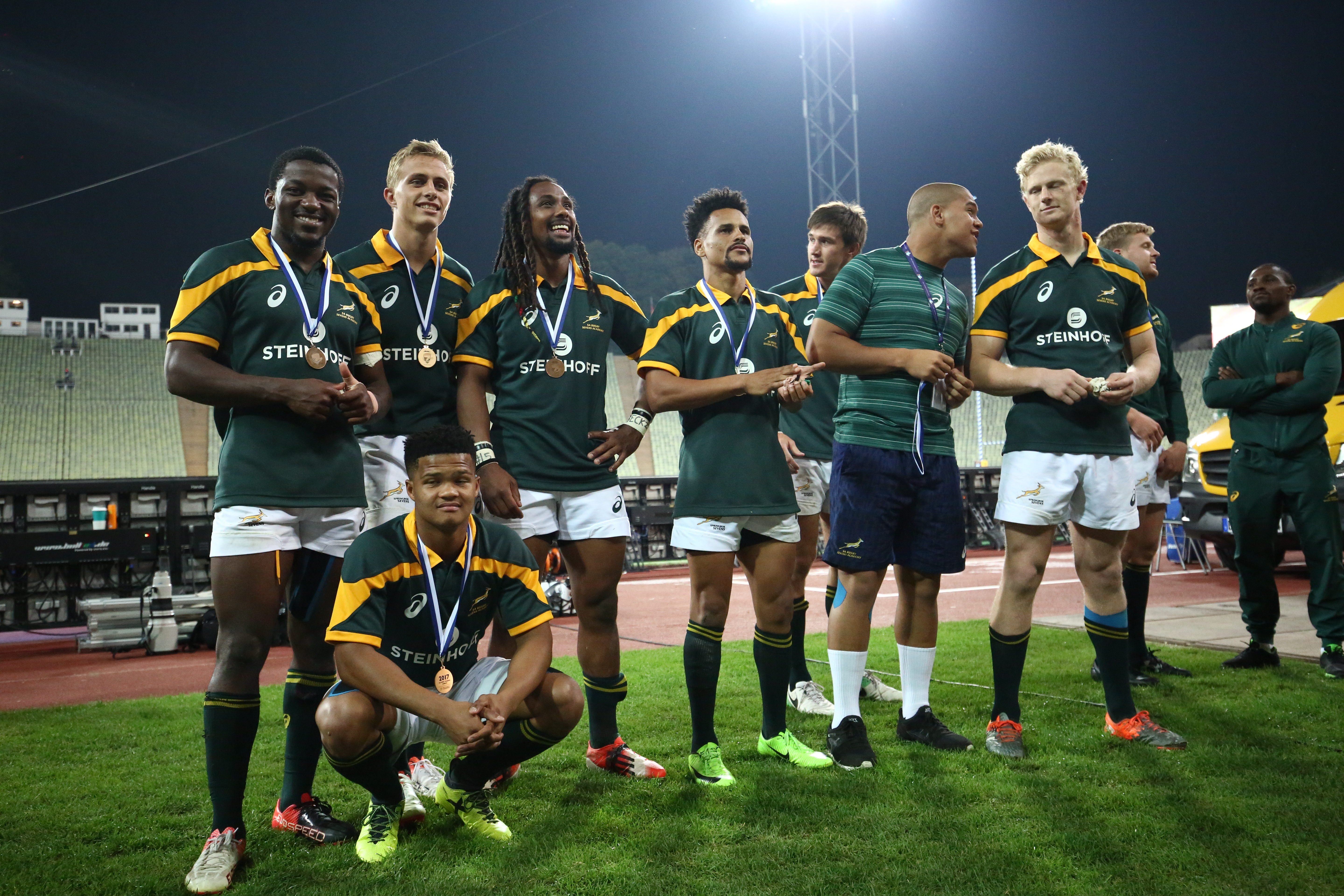 Rugby tournament "Oktoberfest 7s", Munich, 2017-09-29/30 at the Olympic stadium of Munich